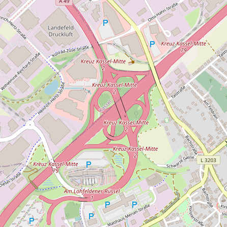 Interchange Kassel-Mitte